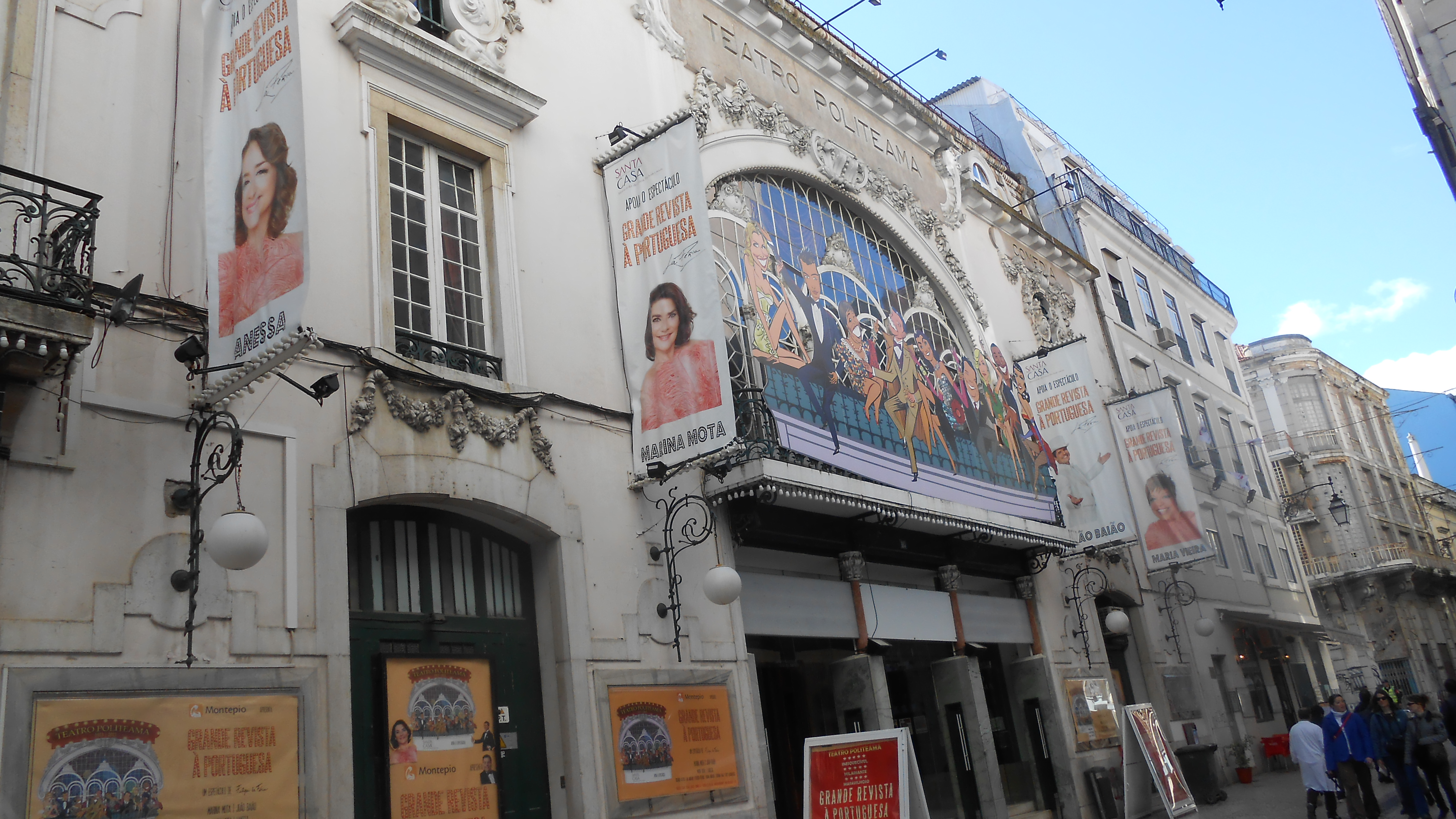 The Teatro Politeama theatre in Lisbon, march 2014